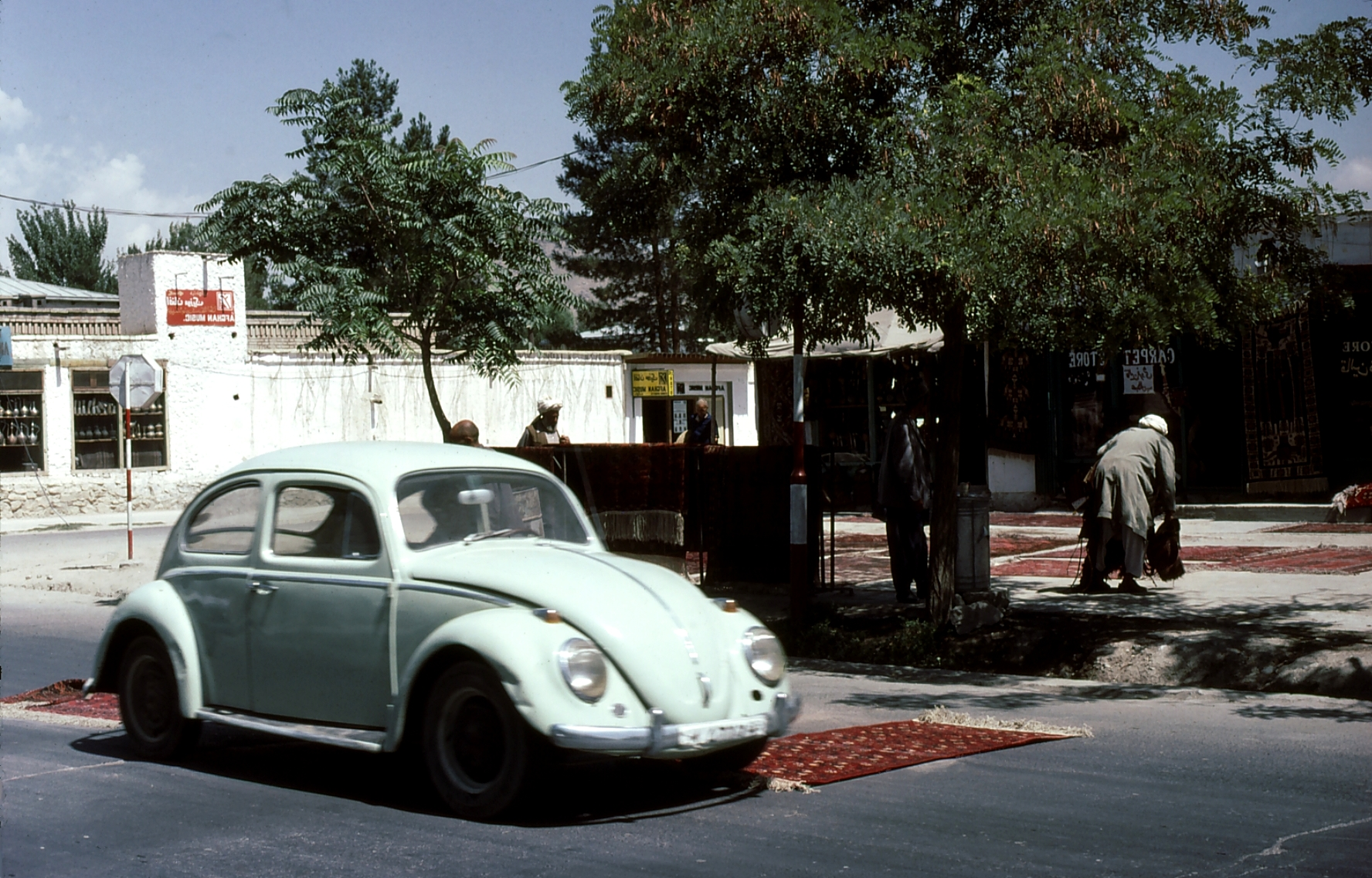 Afghan rugs getting treated for age (1977)